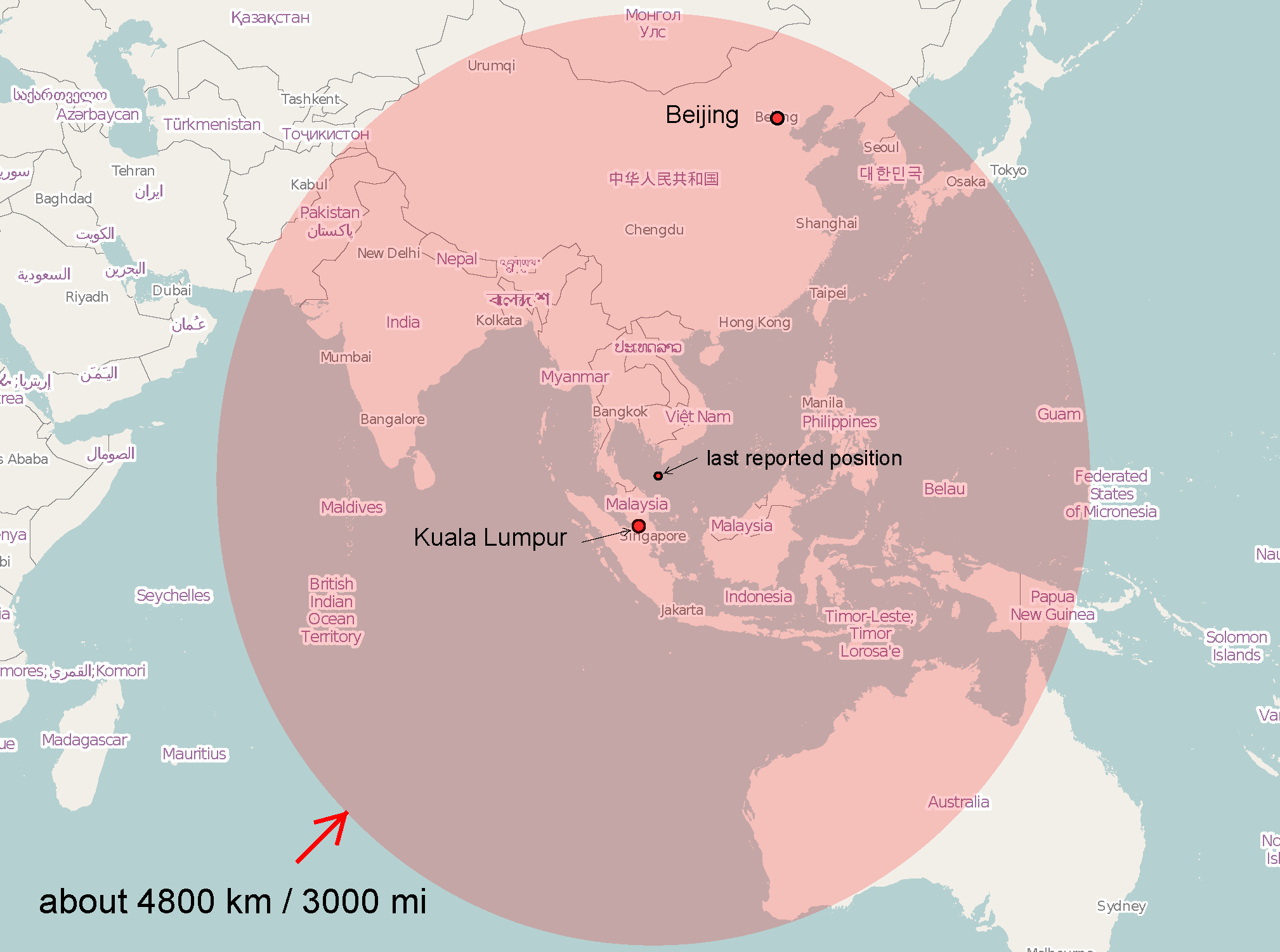 Map of the area, where Malaysia Airlines Flight 370 could be found theoretically. English text.